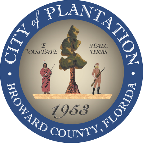 The official city seal of Plantation, Florida, image courtesy of the city's official website.